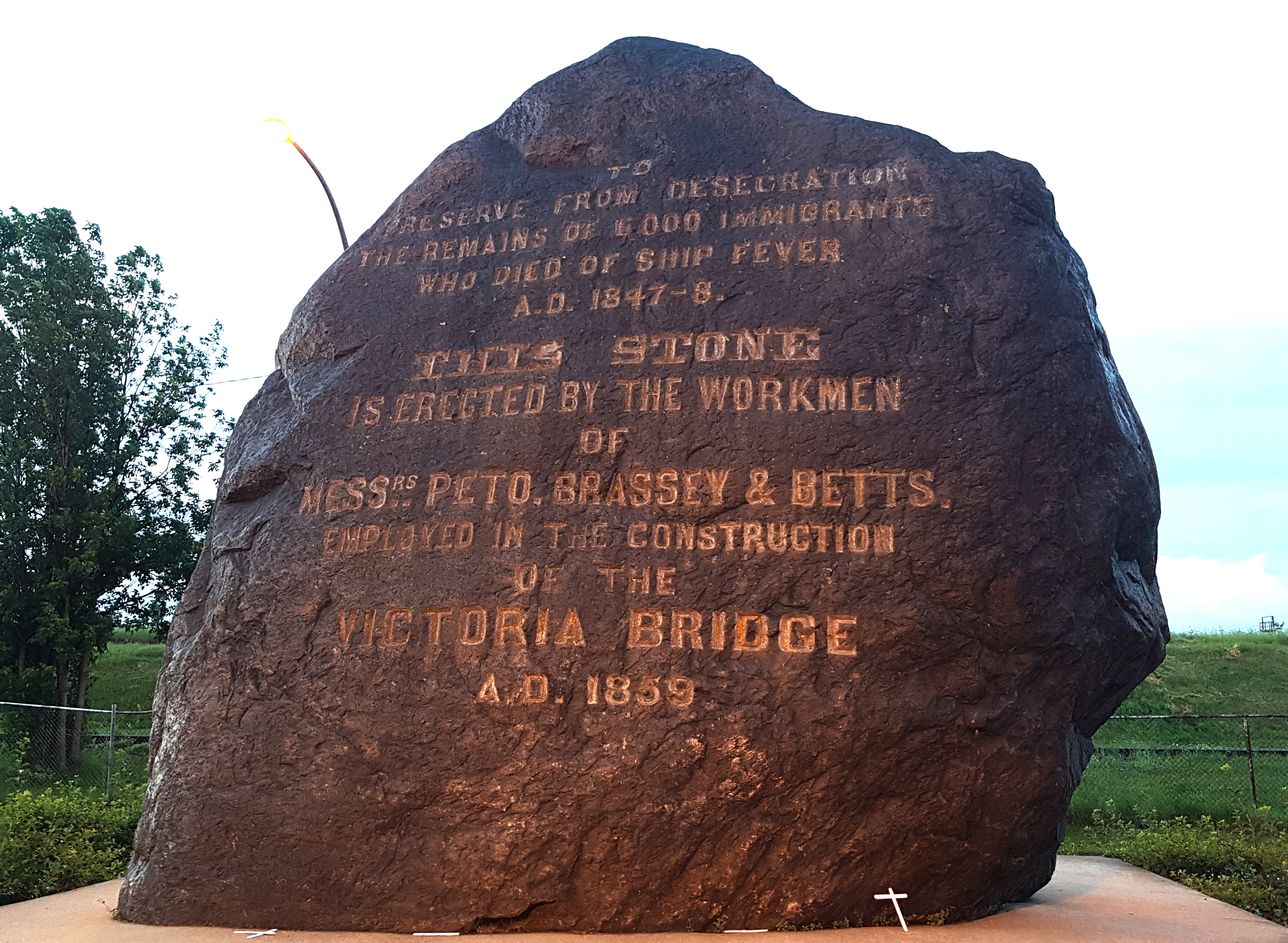 Irish Commemorative Stone, also known as the Black Rock, on 26 June 2017 in Montreal. "To preserve from desecration the remains of 6000 immigrants who died of ship fever A.D. 1847-8. This stone is erected by the workmen of Messrs Peto. Brassey & Betts. employed in the construction of the Victoria Bridge A.D. 1859." ALL PHOTOS: Goose Village / Victoriatown .